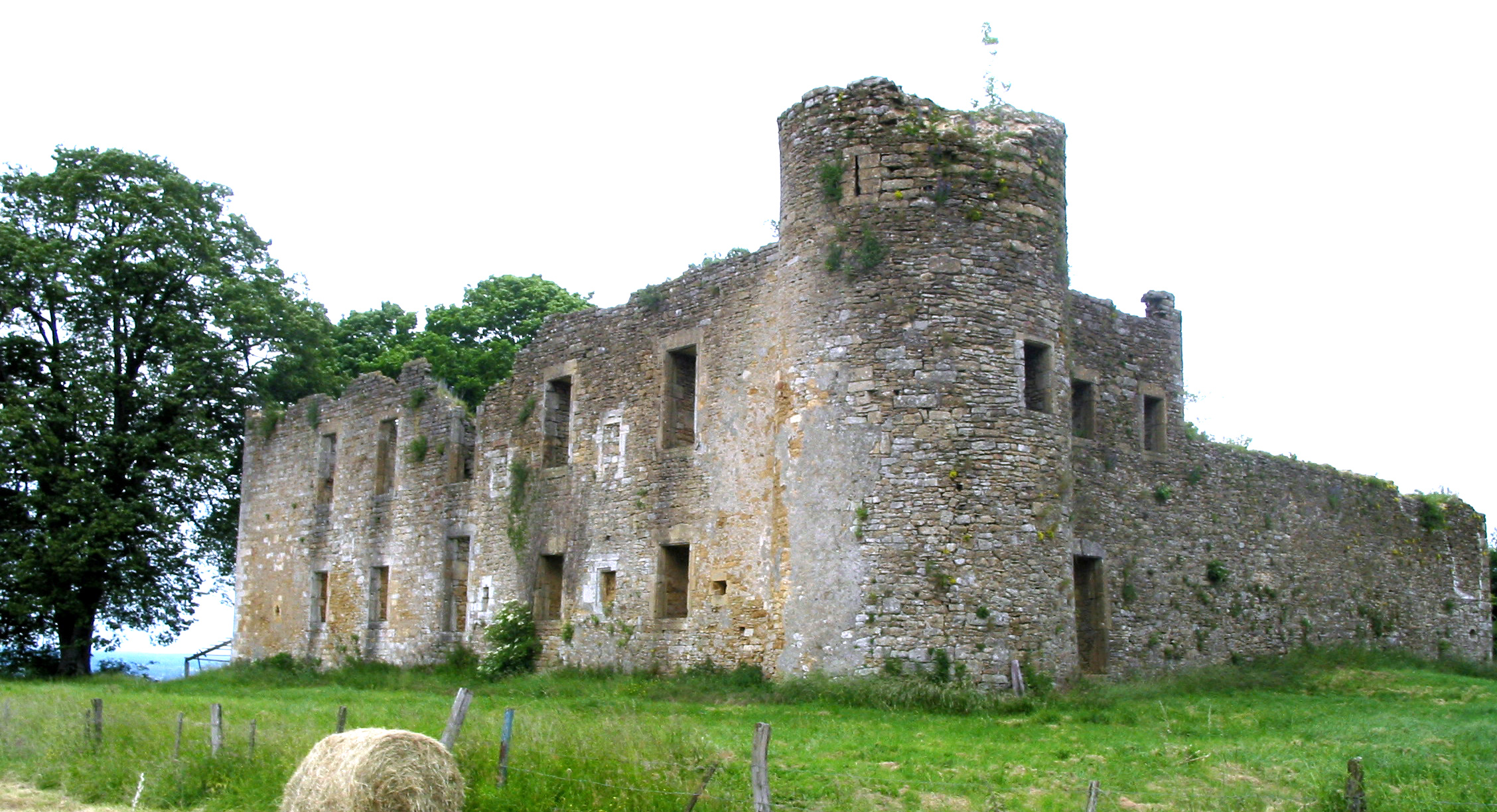 Montquintin, Belgium: "de Hontheim" castle ruins (15th–17th centuries).